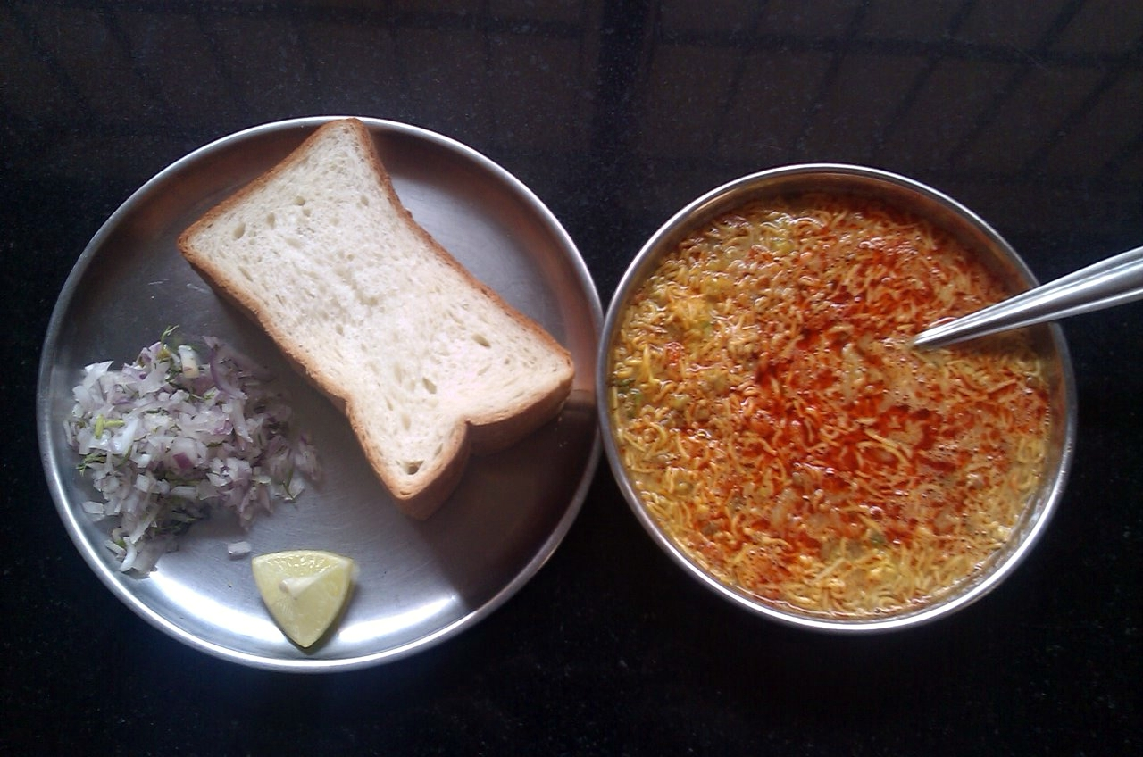 kolhapuri style misal with slice bread... photo taken with my 3m.p. htc mobile phone camera